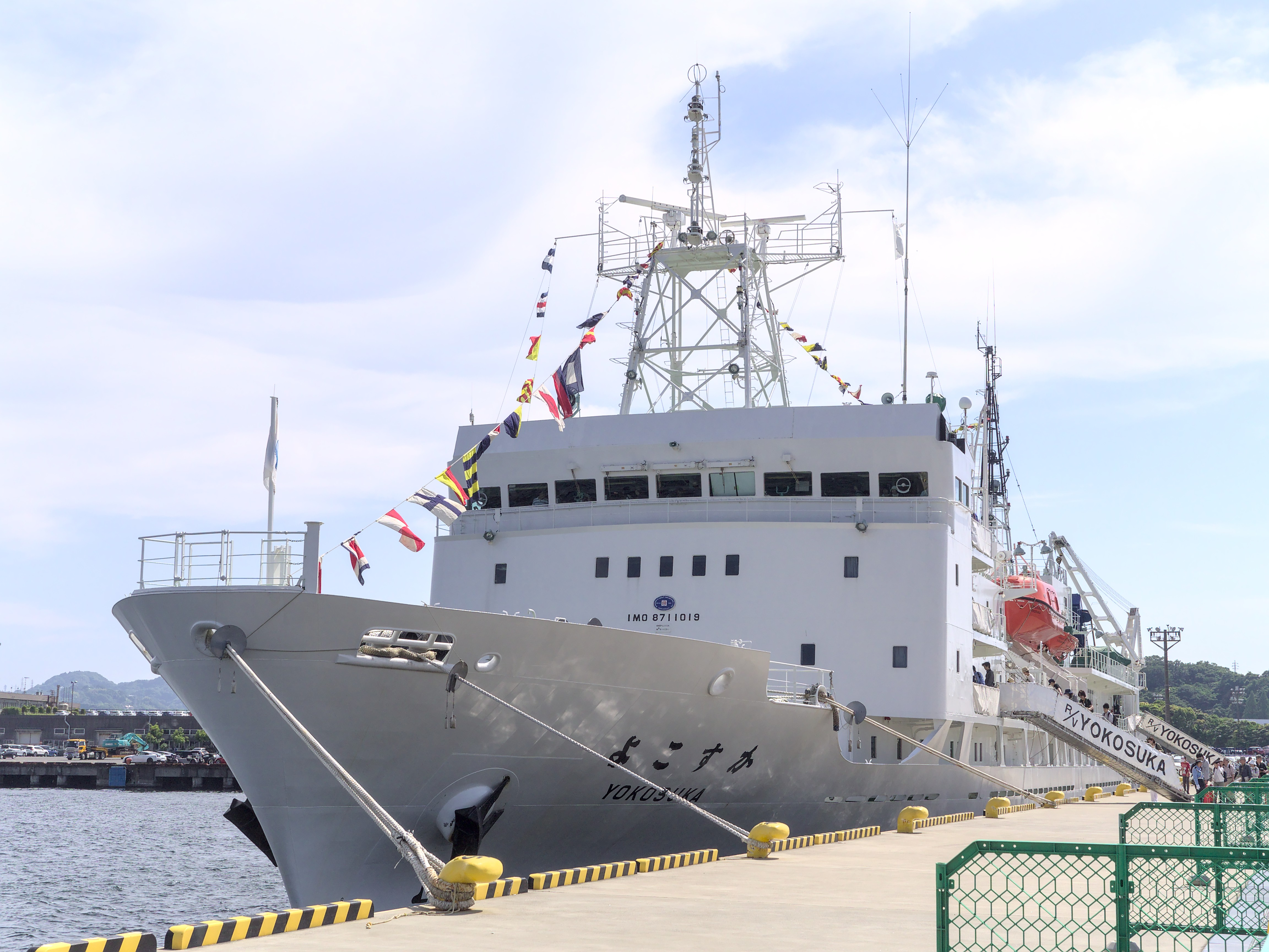 Research Support Vessel Yokosuka, on the open house day of the JAMSTEC Headquarters in the city of Yokosuka, Kanagawa Prefecture, Japan.